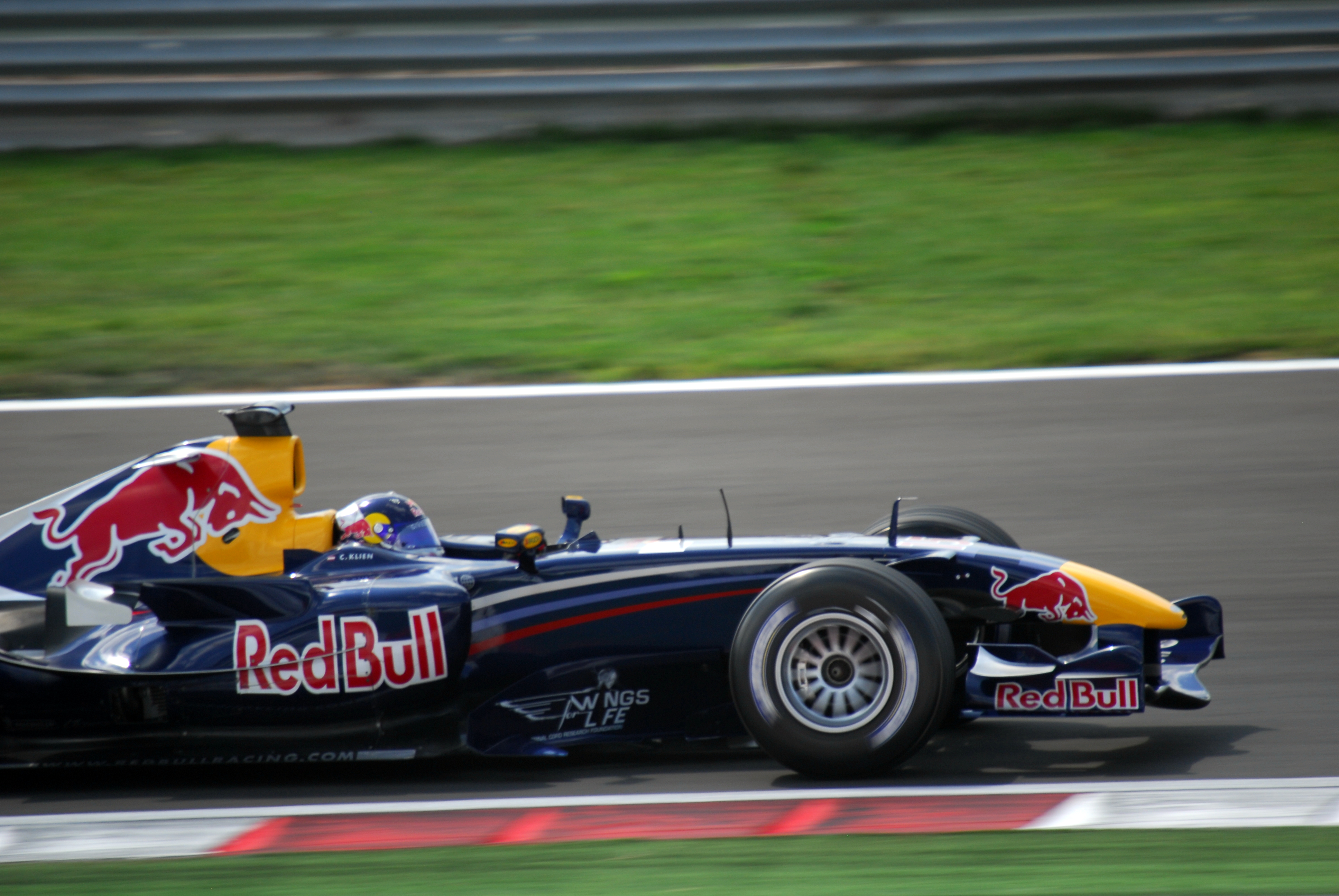 Christian Klien driving for Red Bull Racing at the 2006 Turkish Grand Prix.